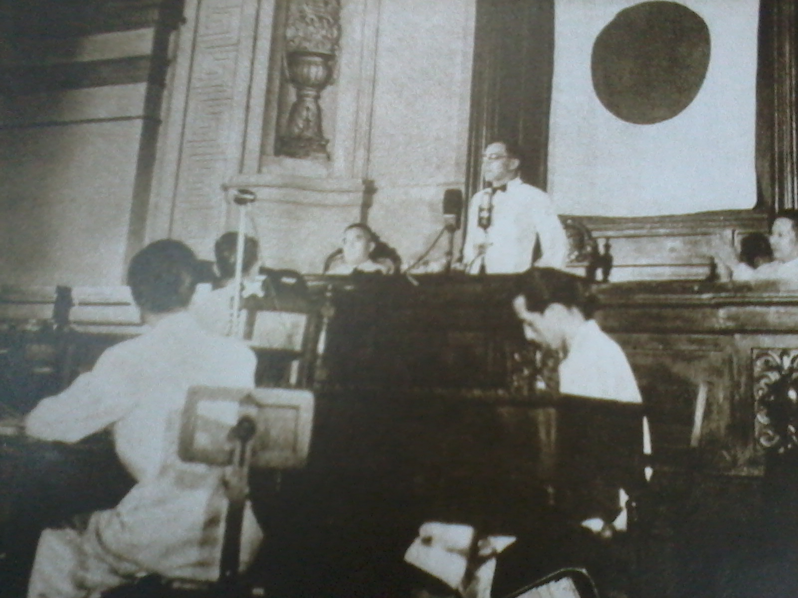 President Jose P. Laurel addresses National Assembly to approve the 1943 Constitution